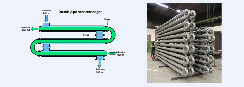 Concentric tube or Double pipe